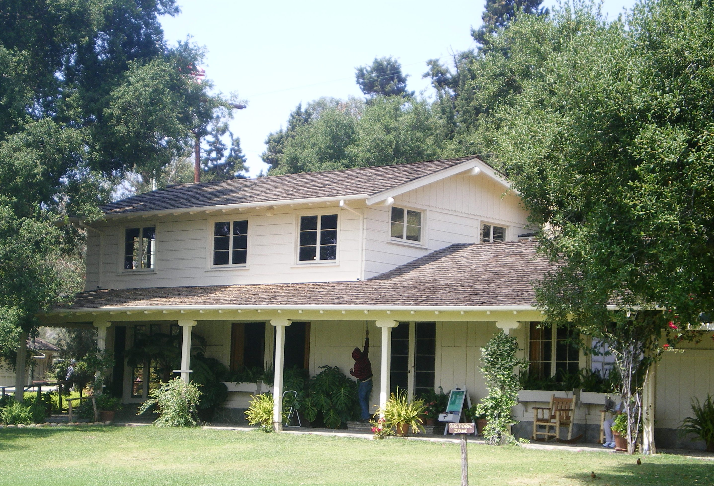 1920s Will Rogers House — in Will Rogers State Historic Park, Southern California. At 14253 Sunset Boulevard, in Pacific Palisades on the Westside of Los Angeles.